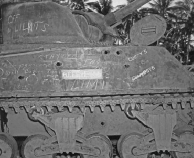 Imperial Japanese Army Type 1 47mm gun shell penetrates of the M4A3 tank hull side armour.